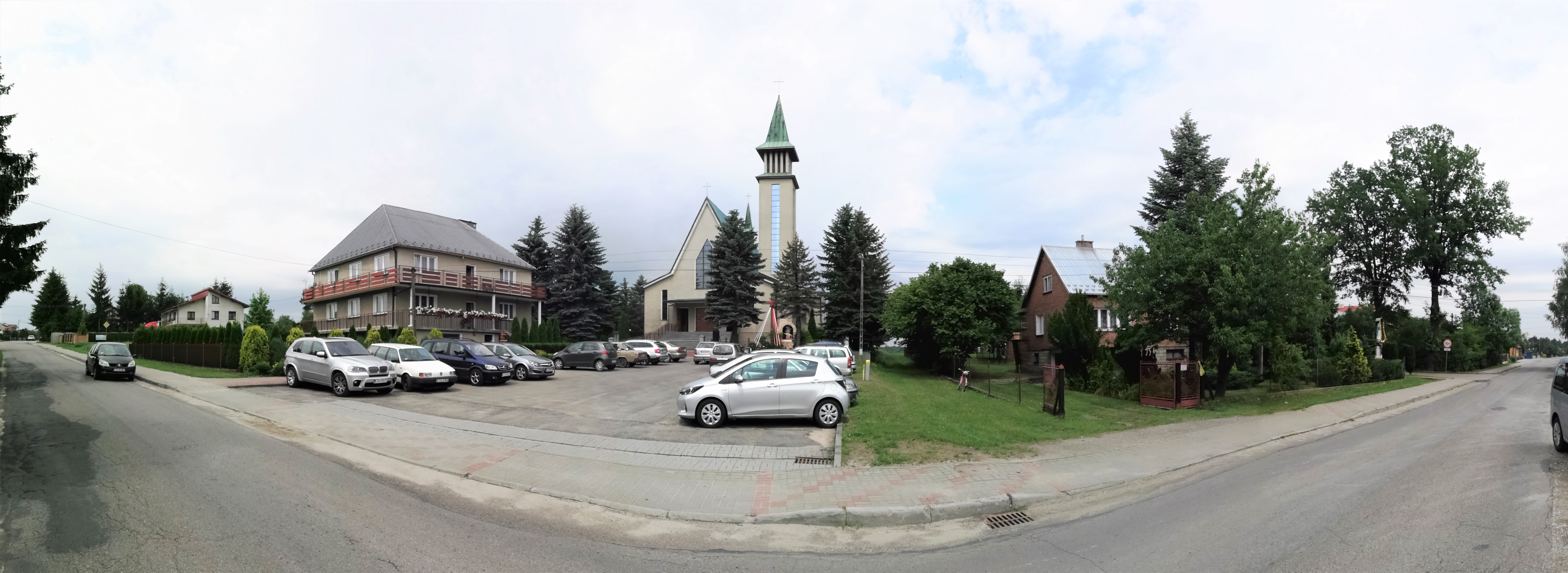 Zaczarnie - a village in the municipality of Lisia Góra - the church dedicated to Our Lady of Sorrows and presbytery - panorama from the south.